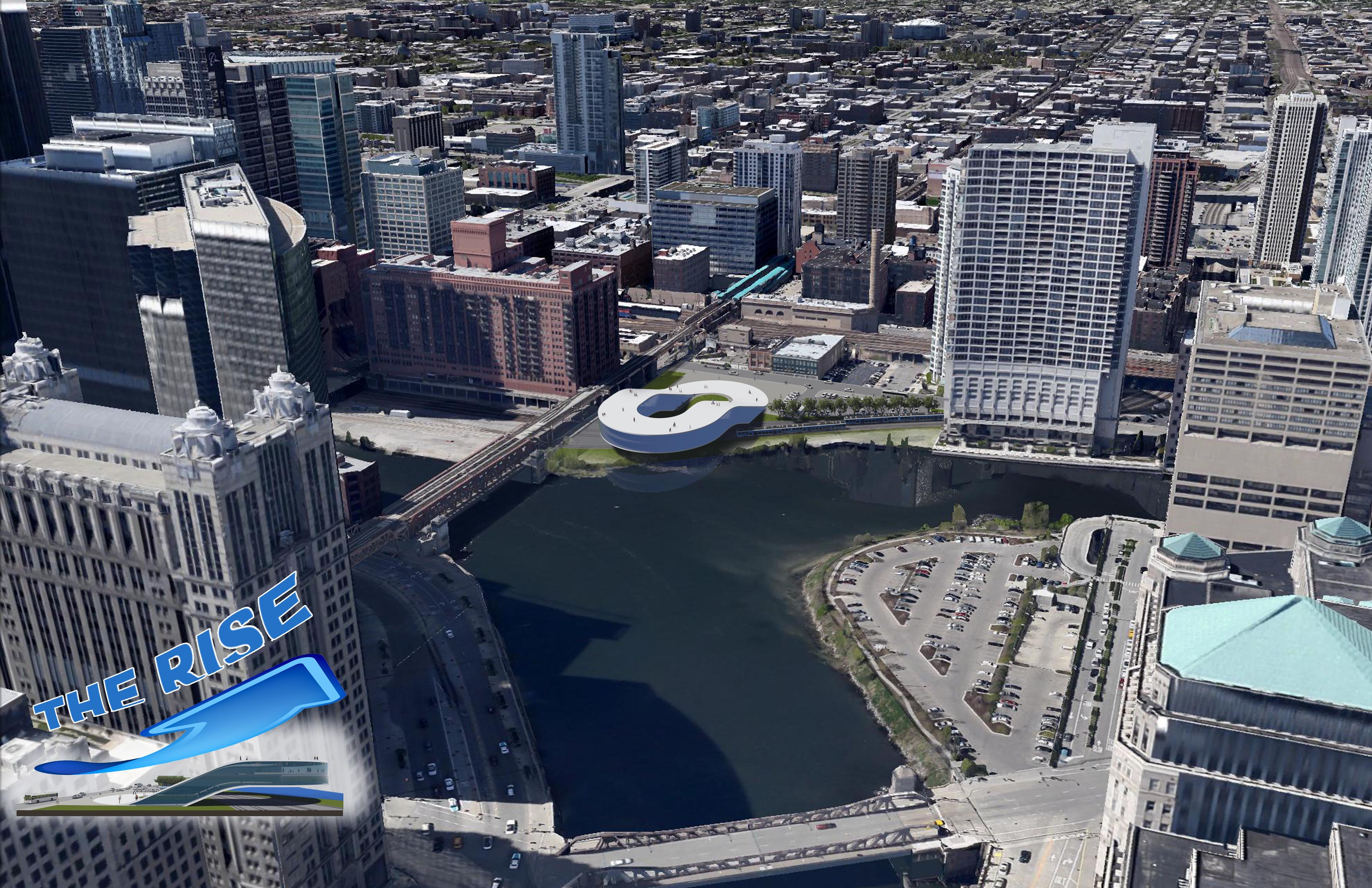 Presidential library proposal